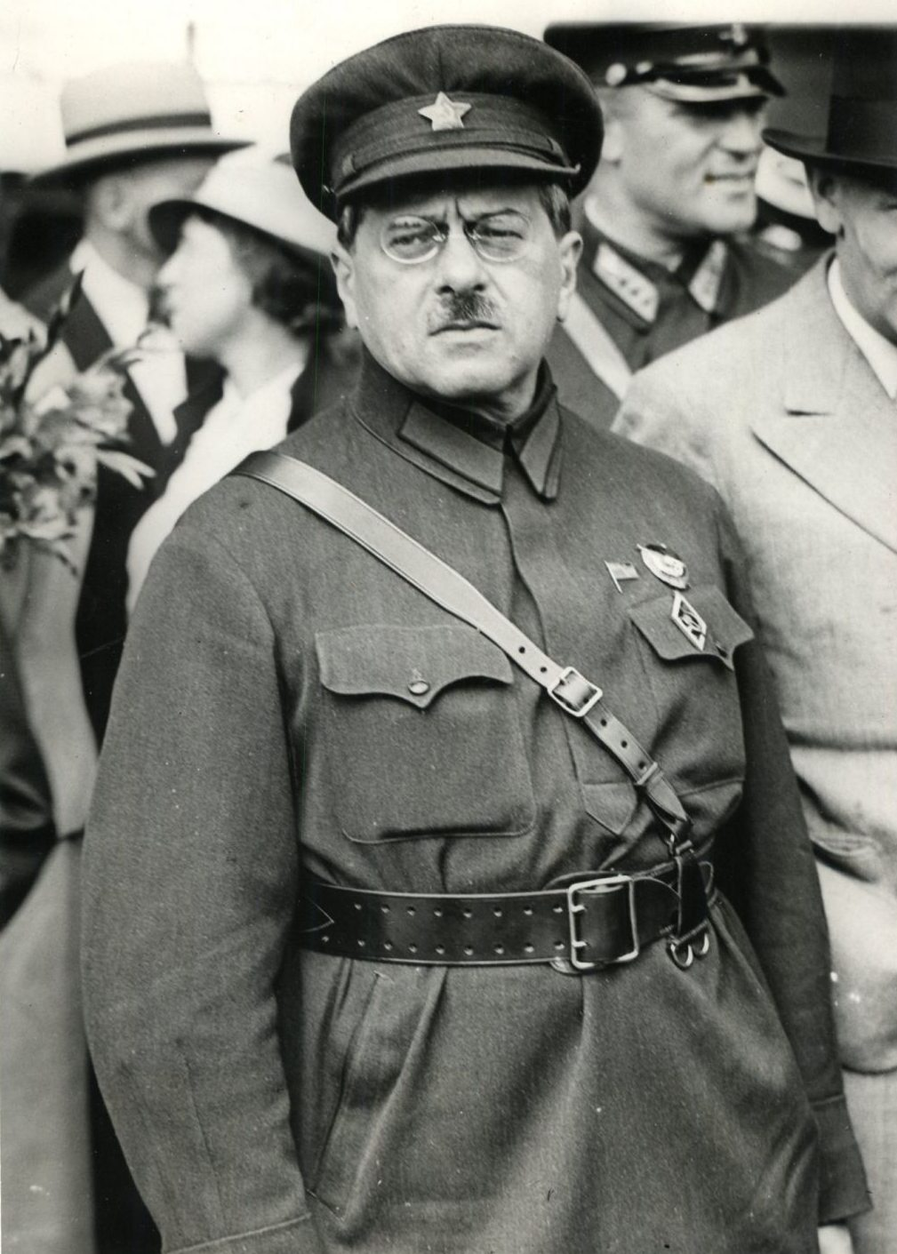 Jozef Unszlicht